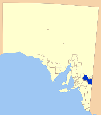 Map of South Australia showing the location of the Loxton Waikerie Local Government Area. A modification of GDFL map by Astrokey44; found here: File:SA_LGA_blank.png